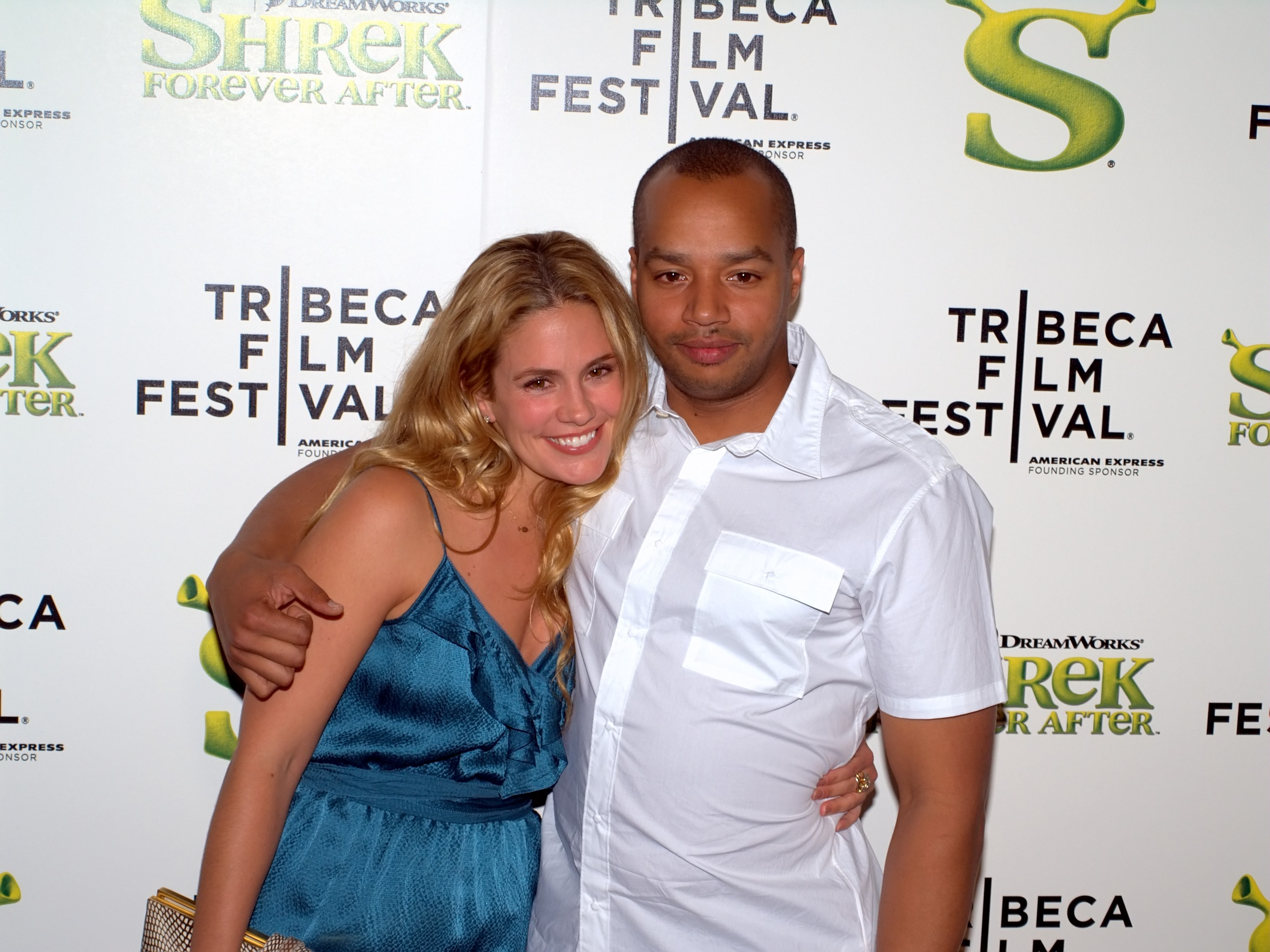 CaCee Cobb and Donald Faison at the 2010 Tribeca Film Festival.